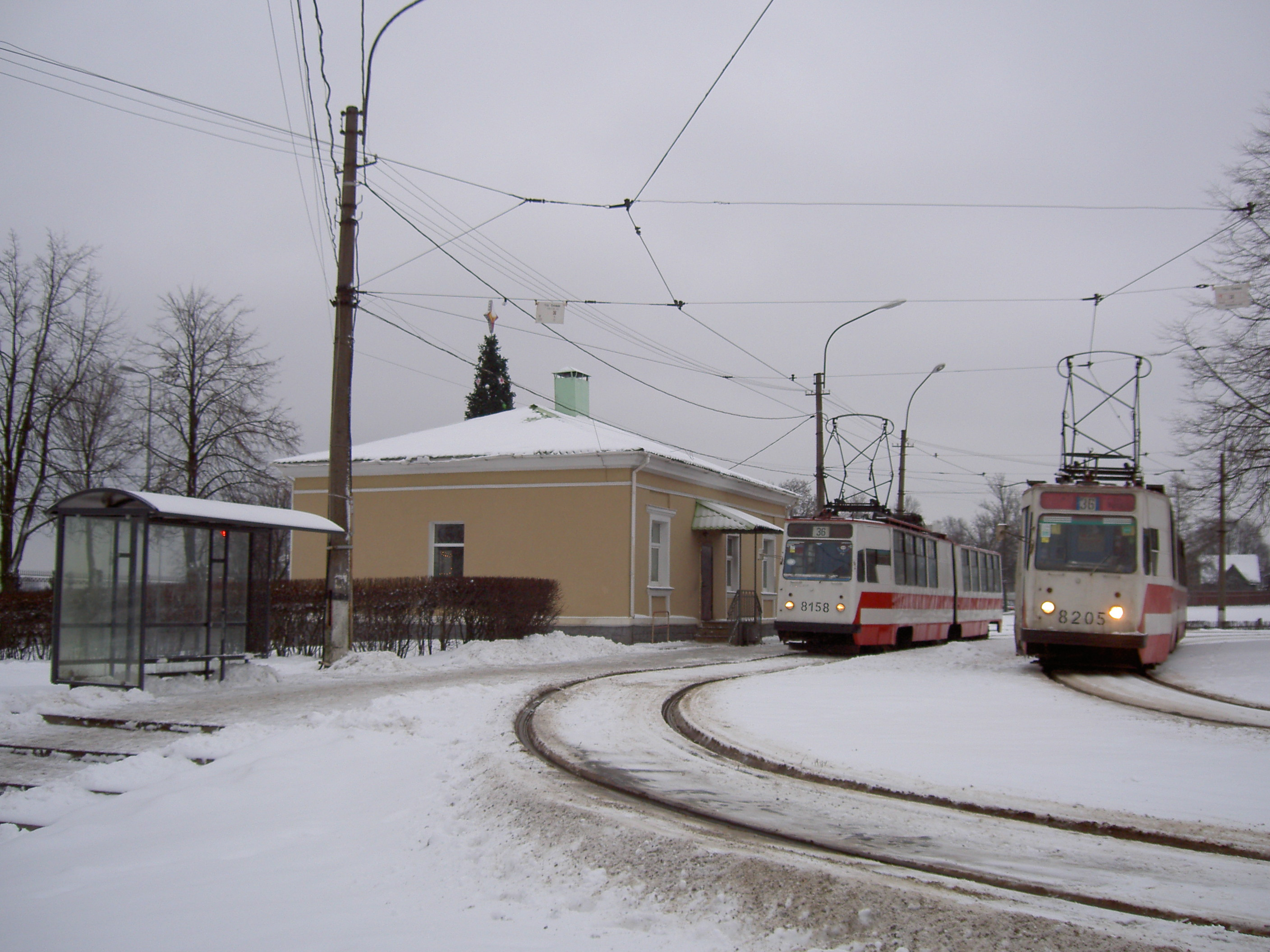 Tram terminal «Strelna»